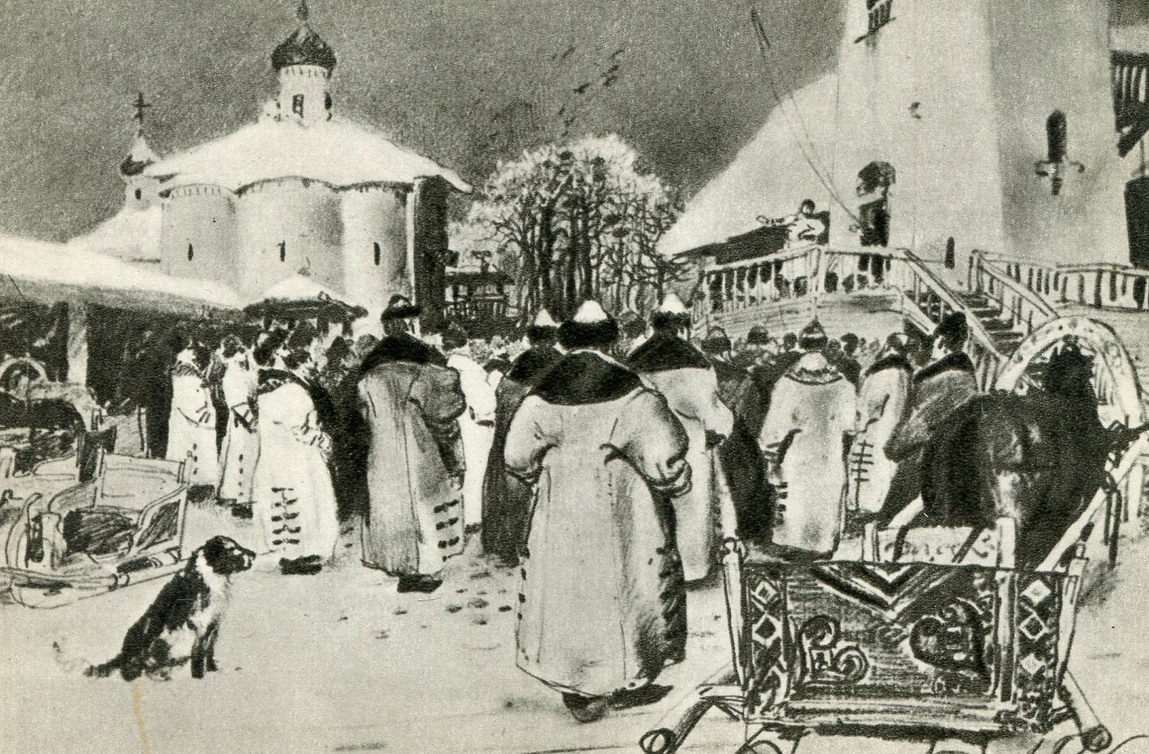 Veche of Novgorod (A. Ryabushkin, end 19th century)